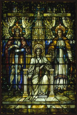 Stained Glass window "Religion Enthroned" by J&R Lamb Studios in 1900